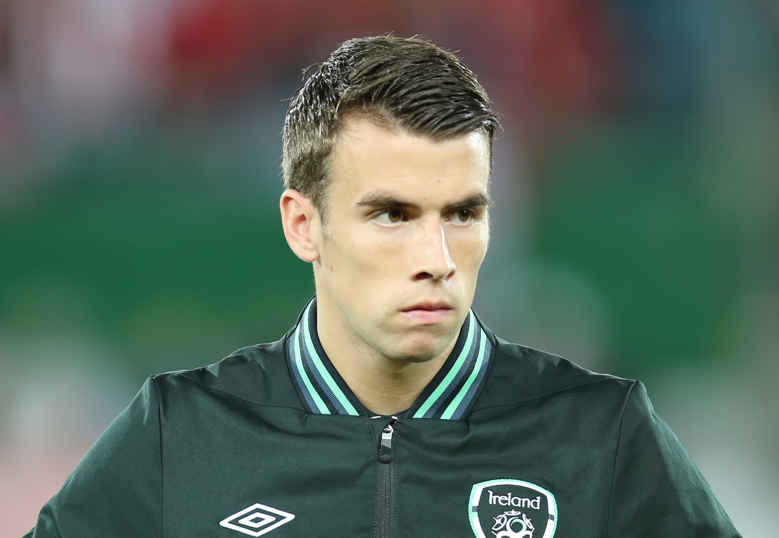 2014 FIFA World Cup qualification (UEFA), Group C: Republic of Ireland national football team at 10. September 2013 before the match against the Austria national football team (0:1) in the Ernst-Happel-Stadion in Vienna. Here: Séamus Coleman, irish defender The making of this work was supported by Wikimedia Austria. For other files made with the support of Wikimedia Austria, please see the category Supported by Wikimedia Österreich.